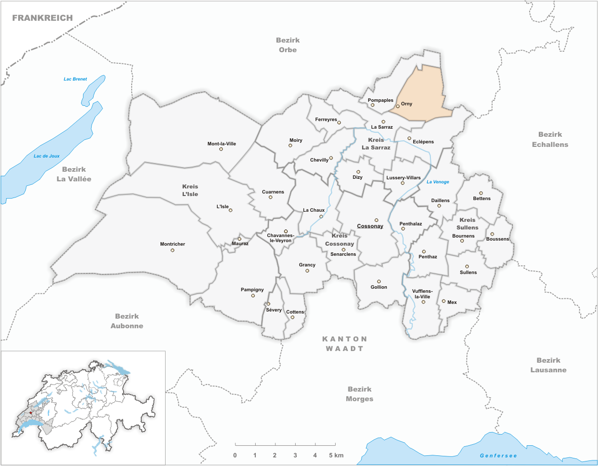 Municipality Orny